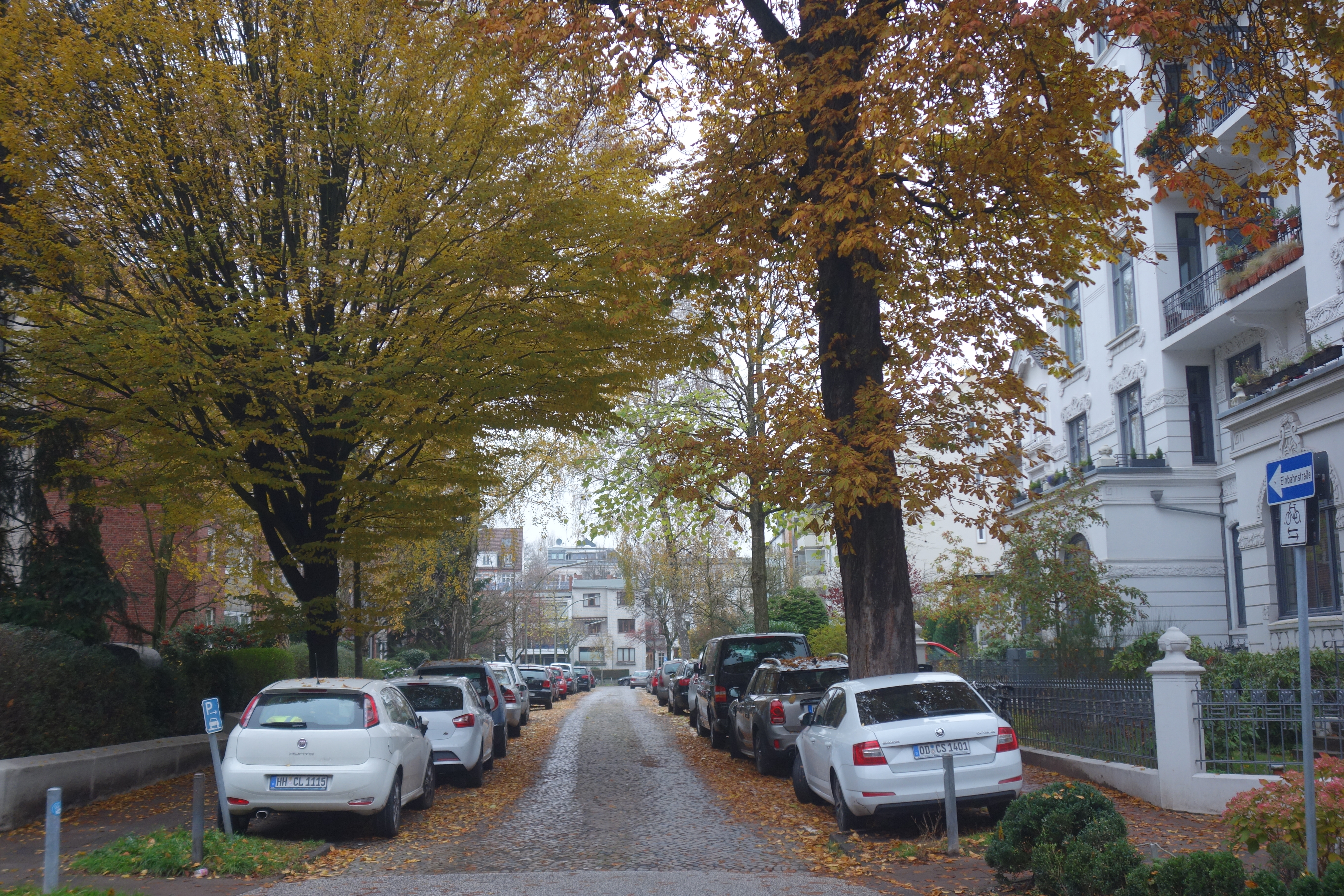 Street in Hamburg.